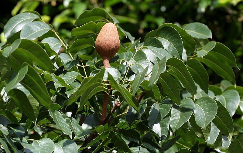 Large-leaved Mahogany Swietenia macrophylla in Kolkata, West Bengal, India.